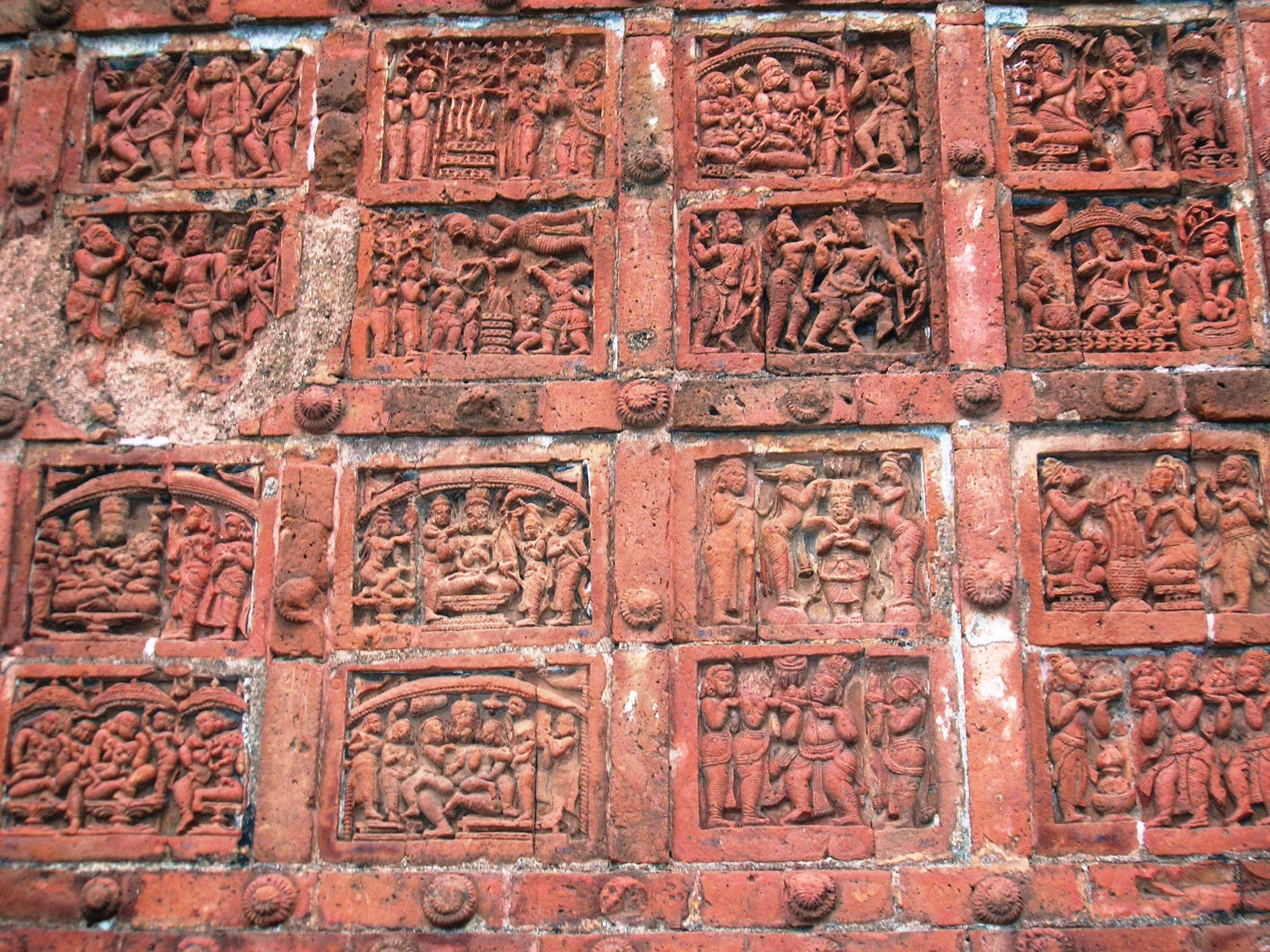 The Ramayana Motifs of Jor-Bangla Temple or Keshta Roy Temple (c. 1655), Bishnupur, Bankura dist., West Bengal, India.